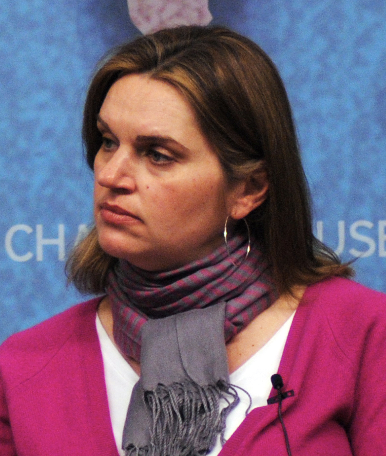 Anneke Van Woudenberg, Senior Researcher, Africa Division, Human Rights Watch - What Next for the Democratic Republic of the Congo? 20 February 2013